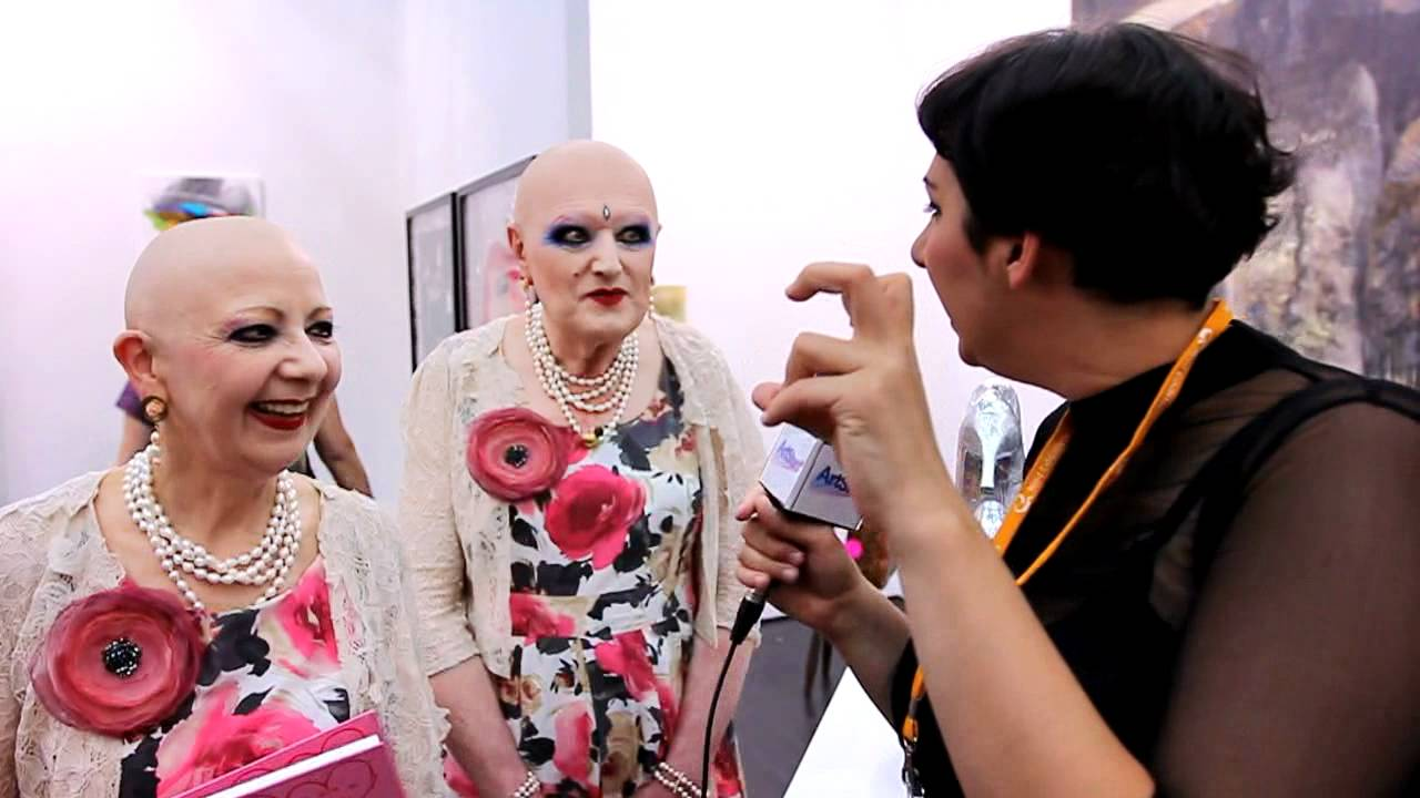 Eva & Adele being interviewed by ArtStars* TV host Nadja Sayej at Vienna Art Fair in 2011.